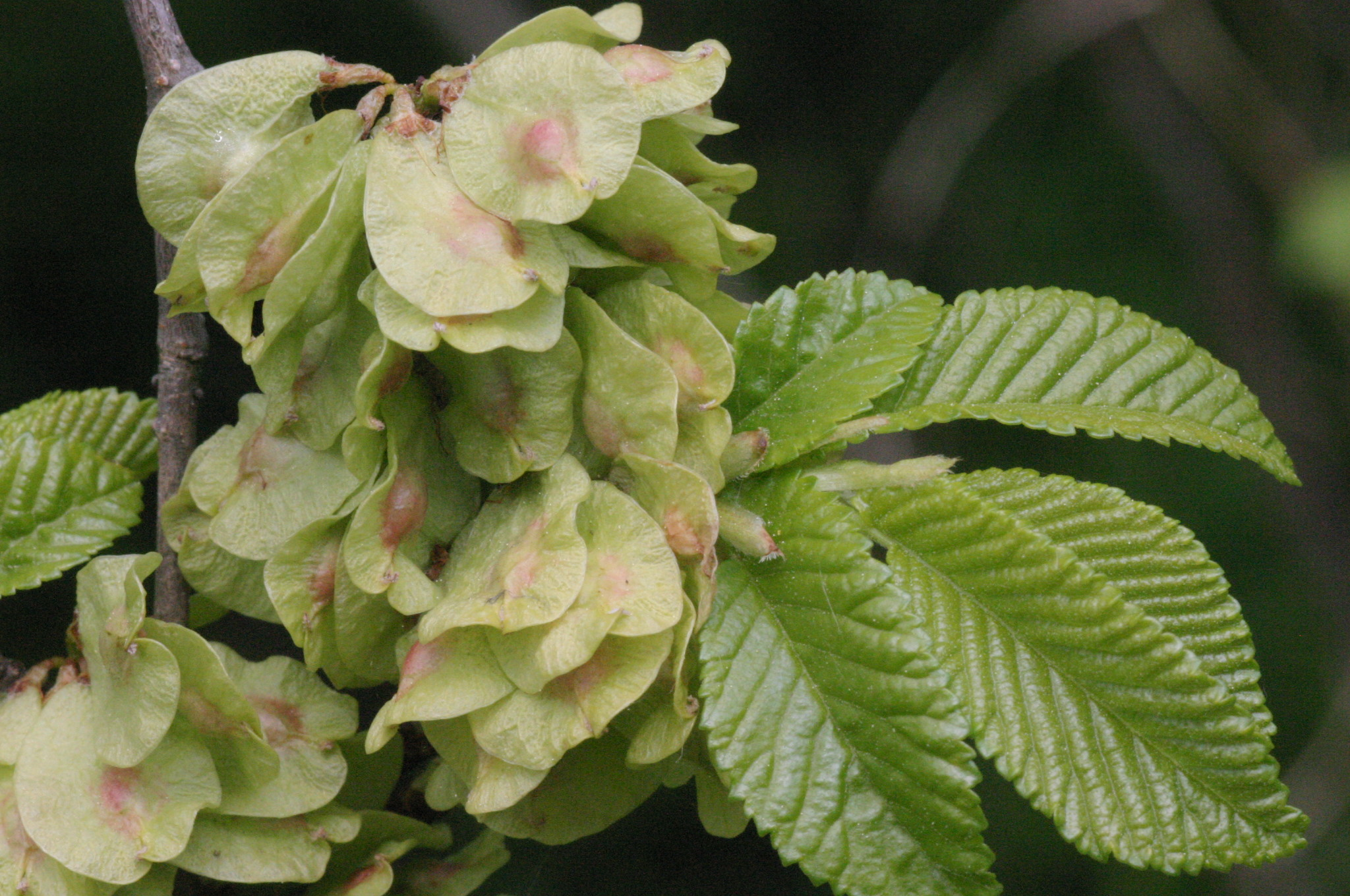 Ulmus minor